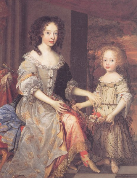 "The Ladies Catherine and Charlotte Talbot"